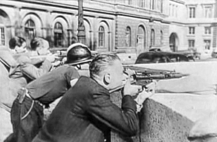 French resistants firing in a skirmish during the battle for Paris. Screenshot from La Liberation de Paris, September 1st, 1944. there is no known copyright for this 1944 underground propaganda work but the producer is the Le Comite de Liberation du Cinema Francais which disbanded shortly after. original movie file cand be found as public domain material at